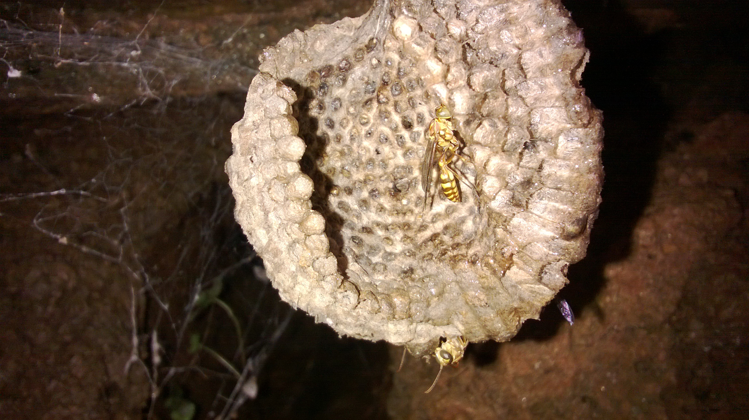 A species of wasp found in Panchkhal Valley.